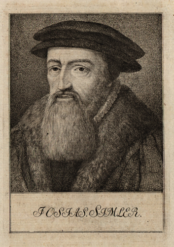 18th century image of Josias Simmler (Simler)